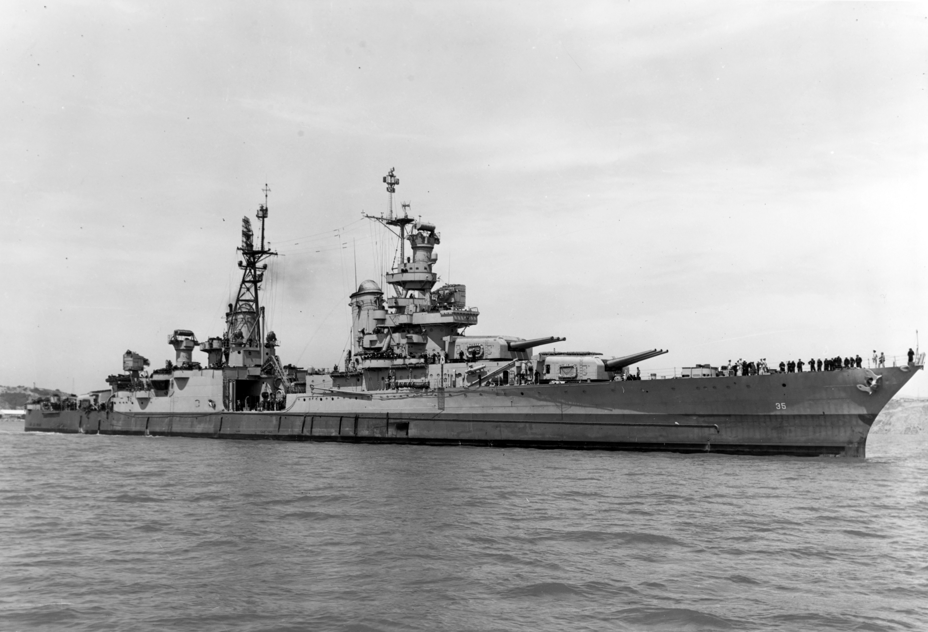 The U.S. Navy heavy cruiser USS Indianapolis (CA-35) off the Mare Island Naval Shipyard, California (USA), on 10 July 1945, after her final overhaul and repair of combat damage. The photo was taken before the ship delivered atomic bomb components to Tinian and just 20 days before she was sunk by a Japanese submarine.Photograph from the Bureau of Ships Collection in the U.S. National Archives.